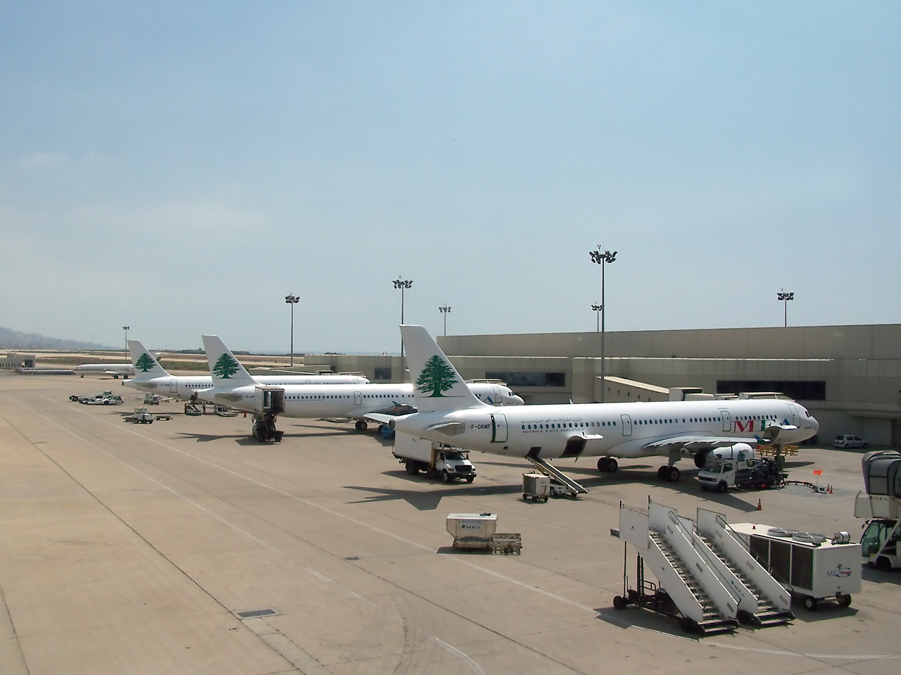 A view of the east side of the west wing at Beirut's Rafic Hariri International Airport (BEY/OLBA). Three Airbus A321-200s from the Lebanese national carrier, Middle East Airlines (MEA), can be seen. Photo taken by MEA707.